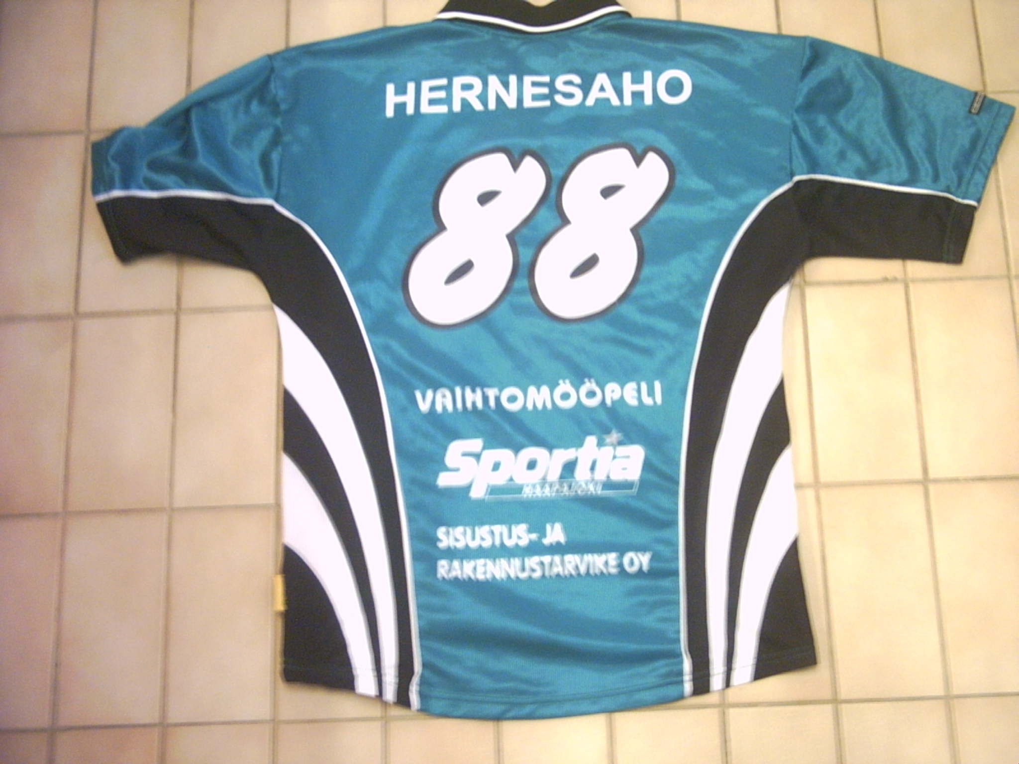 Shirt of RuPS